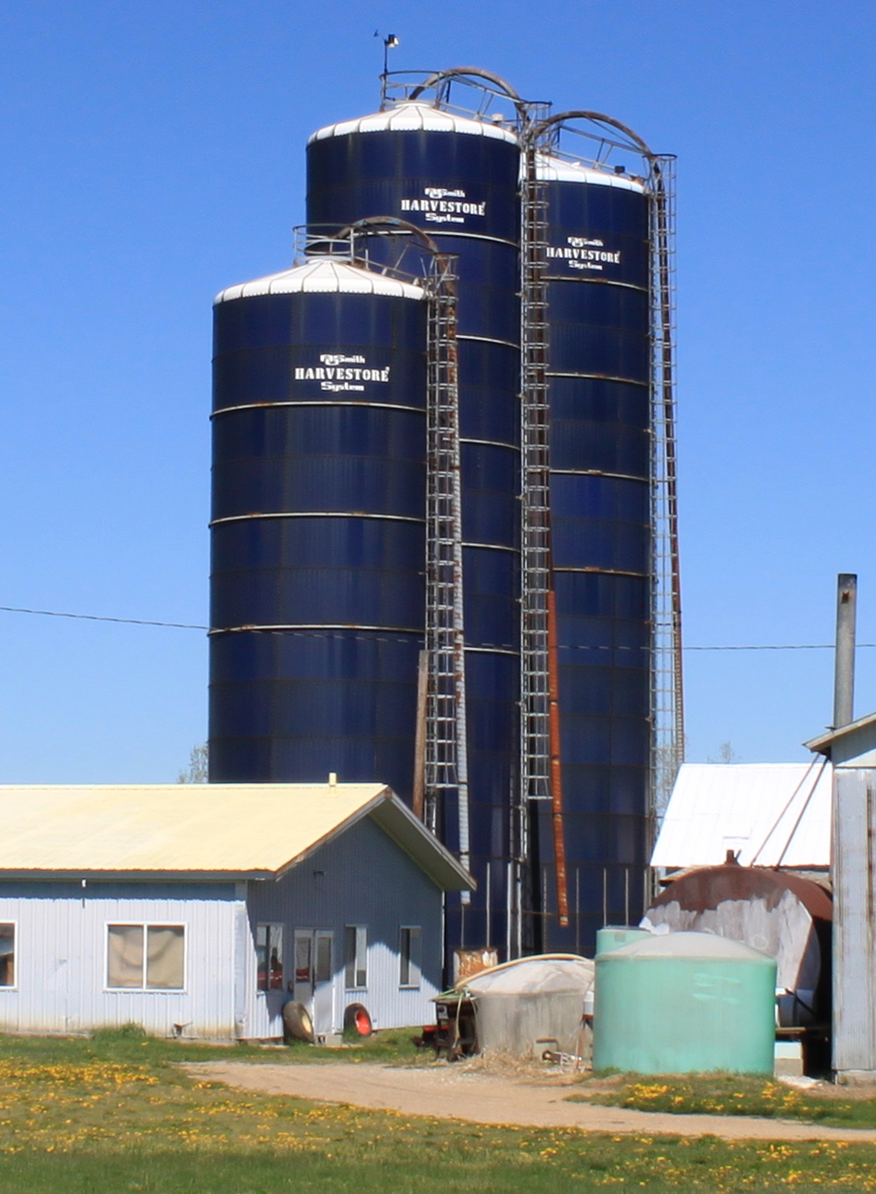 A.O. Smith Harvestore glass-fused-to-steel silos, near 12680 Ridge Highway, Britton, Michigan.